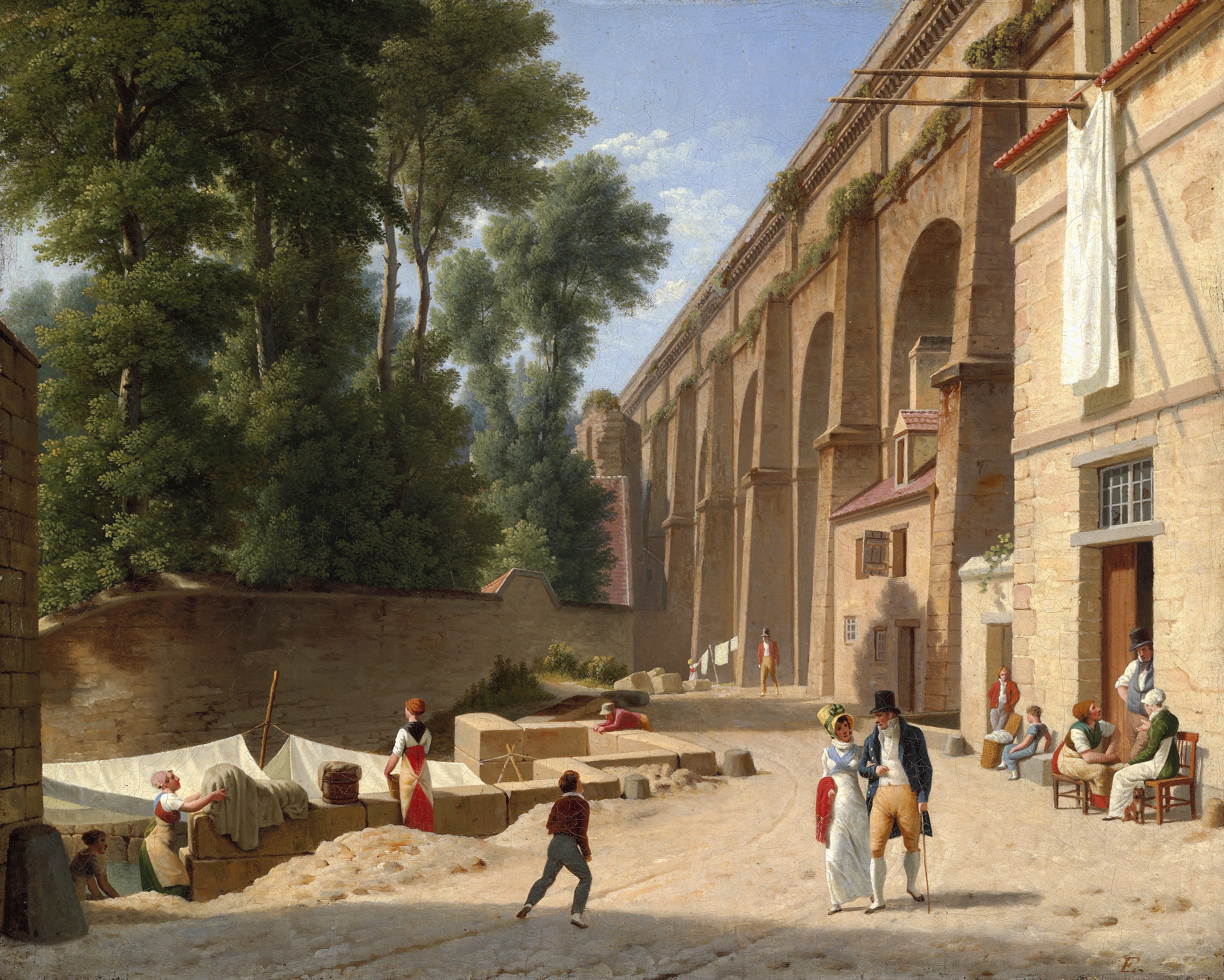 This must be the old Medici aqueduct, which today forms the base for a part of the L'aqueduc de la Vanne.